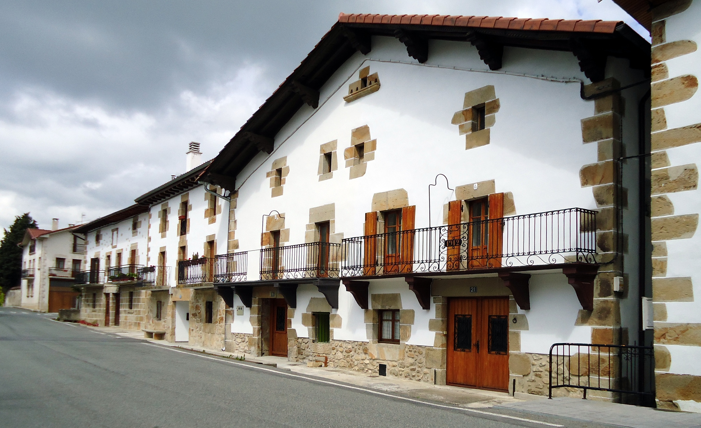 Iturmendi village (Sakana, Navarre)